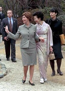 Laura Bush and the Japanese Kantei hostess Kikuyo Fukuda (wife of Chief Cabinet Secretary Yasuo Fukuda) following a lunch and tea ceremony at Akasaka Palace, Tokyo.